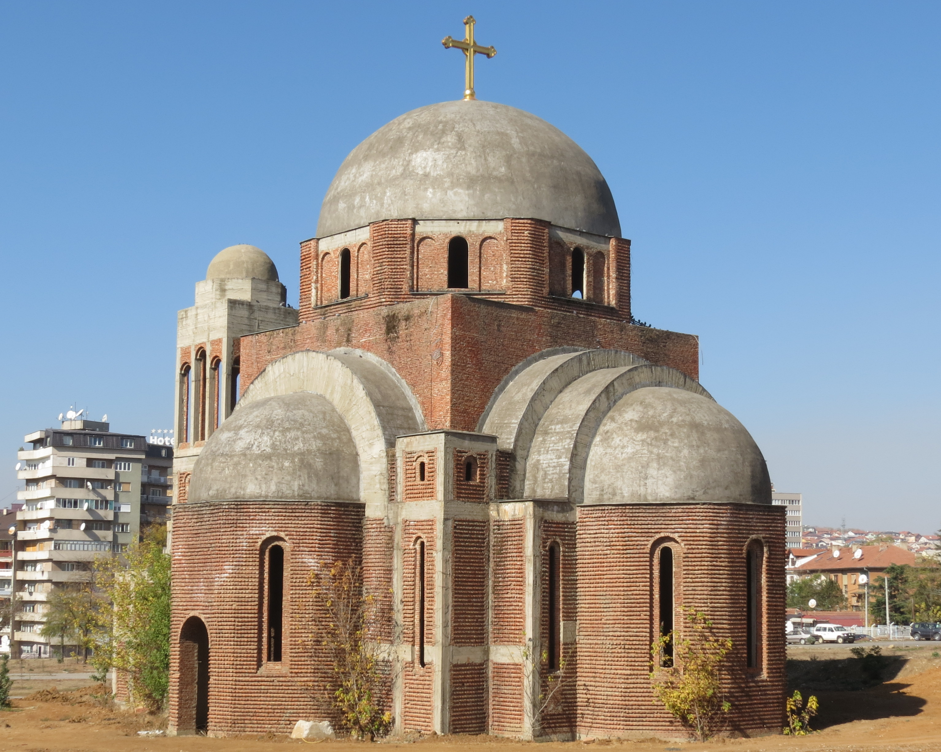 The unfinished Serbian Ortodox "Christ the Savior" Cathedral in Pristina, Kosovo.